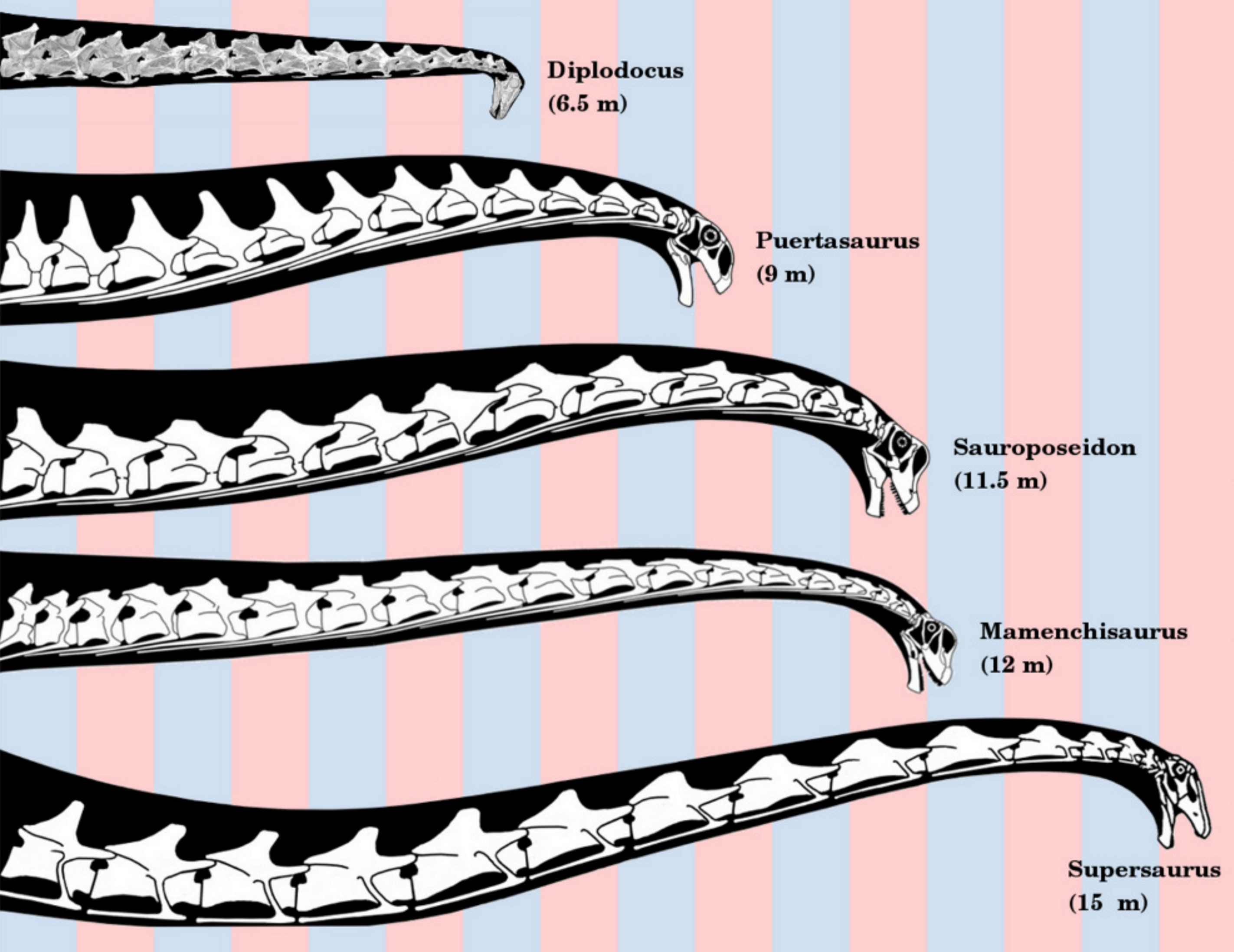 Diplodocus, modified from elements in Hatcher (1901, plate 3), represents a “typical” long-necked sauropod, familiar from many mounted skeletons in museums. Puertasaurus, Sauroposeidon, Mamenchisaurus and Supersaurus modified from Scott Hartman’s reconstructions of Futalognkosaurus, Cedarosaurus, Mamenchisaurus and Supersaurus respectively. Alternating pink and blue bars are one meter in width.